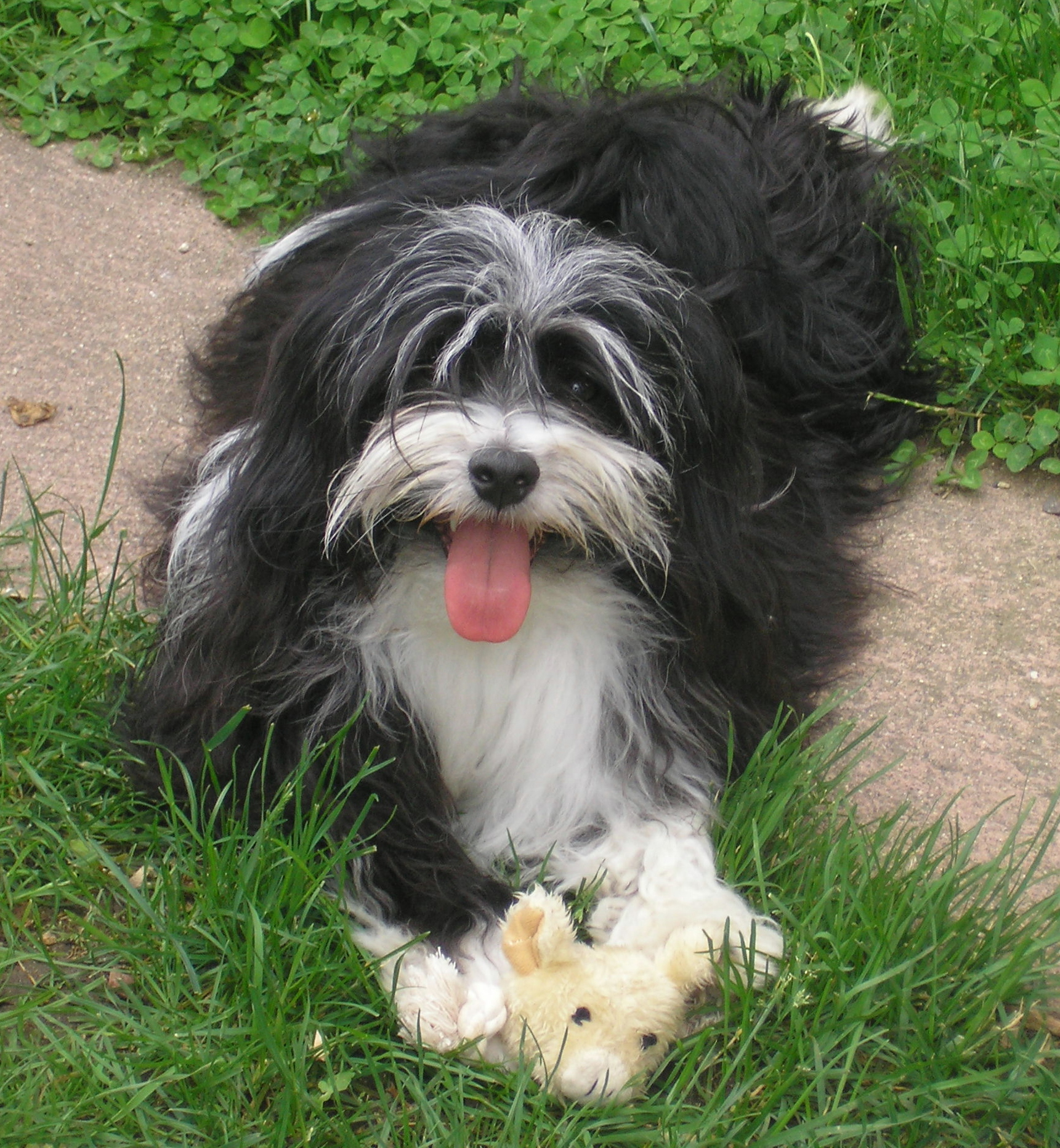 Havana bichon of 1 year